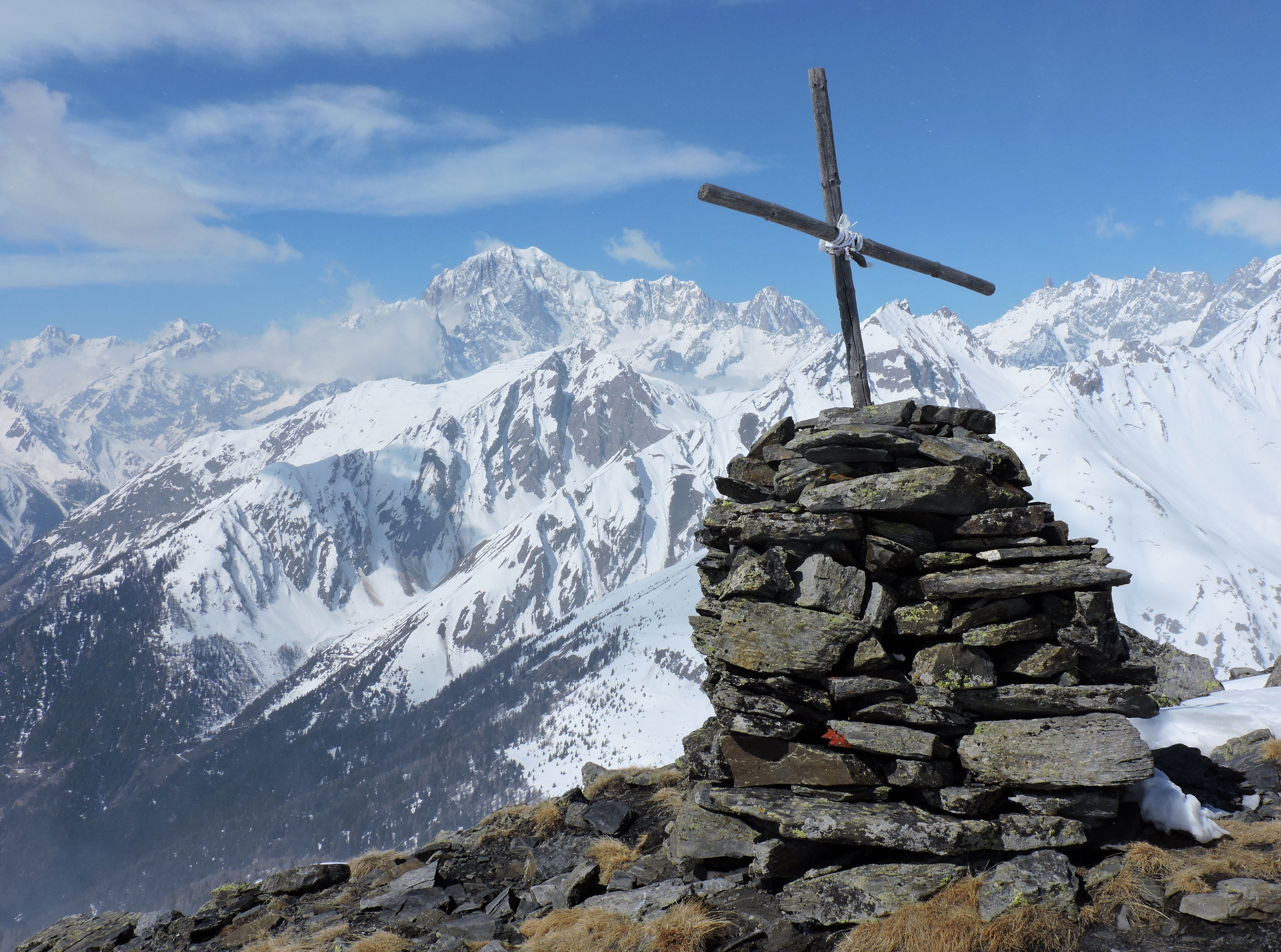 Punta Fetita (Penine Alps, Aosta Valley, IT)ː summit cairn, in the background the Mount Blanc